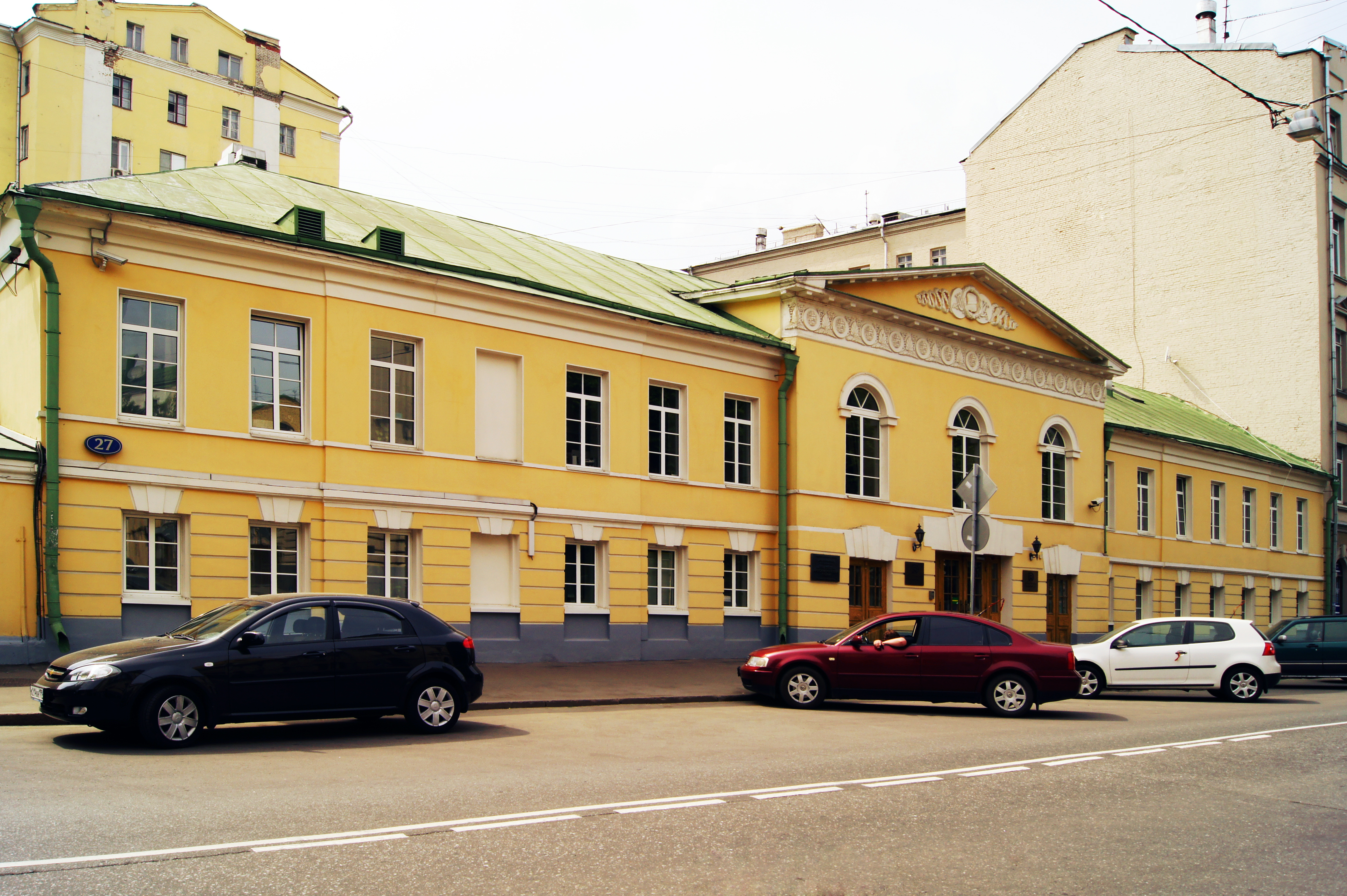 Povarskaya Street Moscow, 27